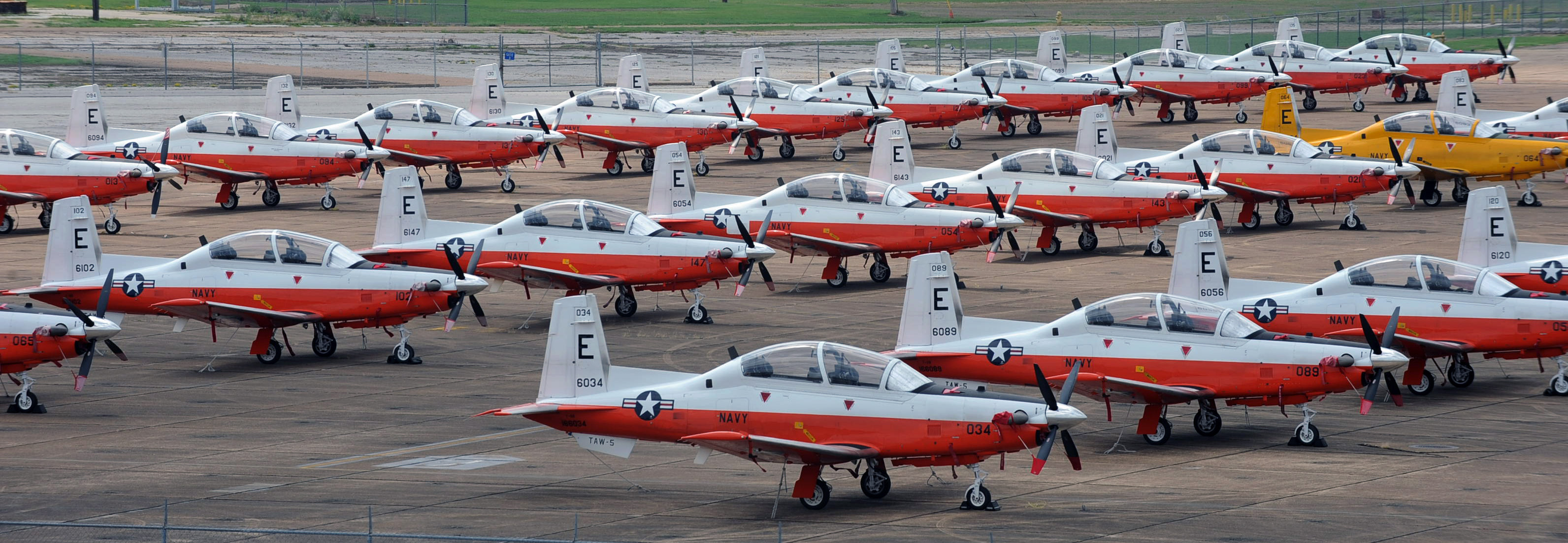 MILLINGTON, Tenn., (Aug. 28, 2012) T-6B Texan II training aircraft assigned to Training Wing (TRAWING) 5 from Pensacola, Fla., are staged on the tarmac at Millington Regional Jetport after being evacuated from their home station in preparation for Hurricane Isaac. The aircraft will remain in Millington until the storm passes. (U.S. Navy photo by Mass Communication Specialist 3rd Class Ty C. Connors/Released) 120828-N-NP779-063 Join the conversation navylive.dodlive.mil